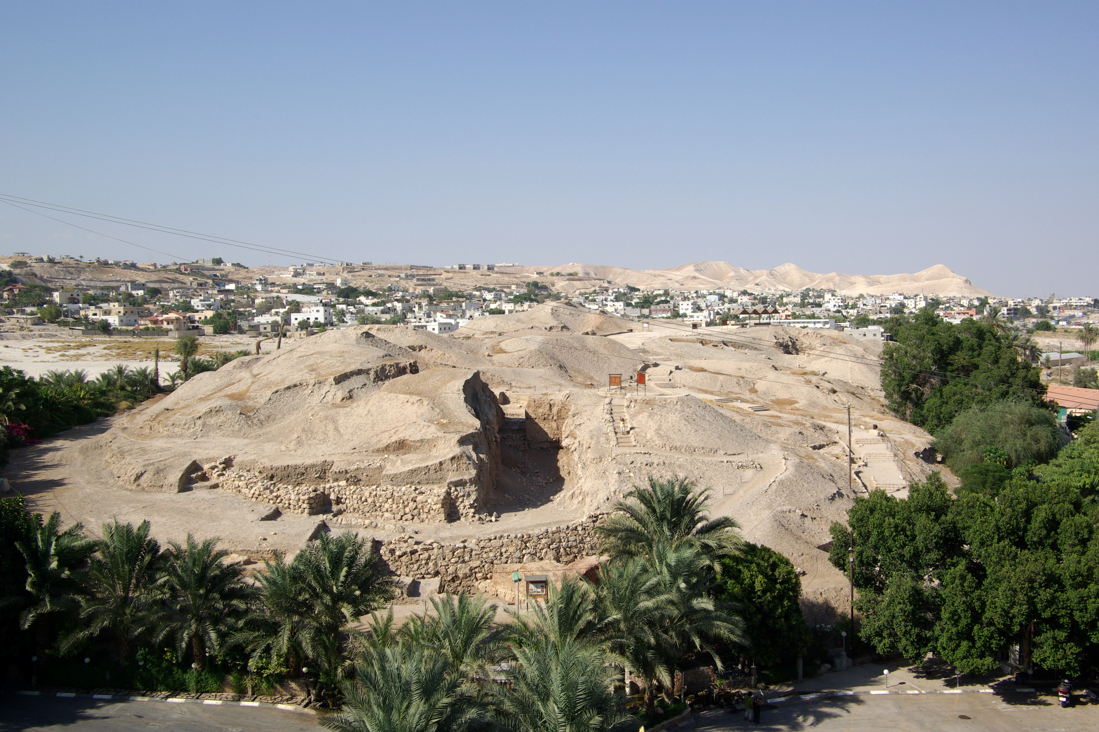 Jericho, Tell es-Sultan.